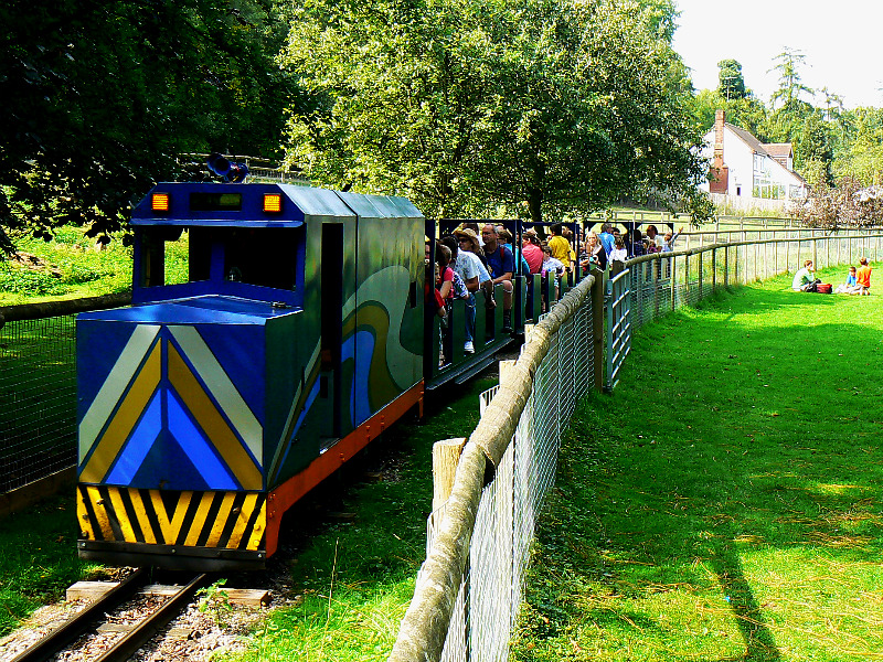 Miniature train, Beale Park, Lower Basildon, near to Lower Basildon, West Berkshire, Great Britain. A free train ride comes as part of the wildlife park experience and great fun it is too. It isn't fast but it is punctual and the open carriages provide good views of the extent of the park. The property in the background is Three Ponds Cottage.